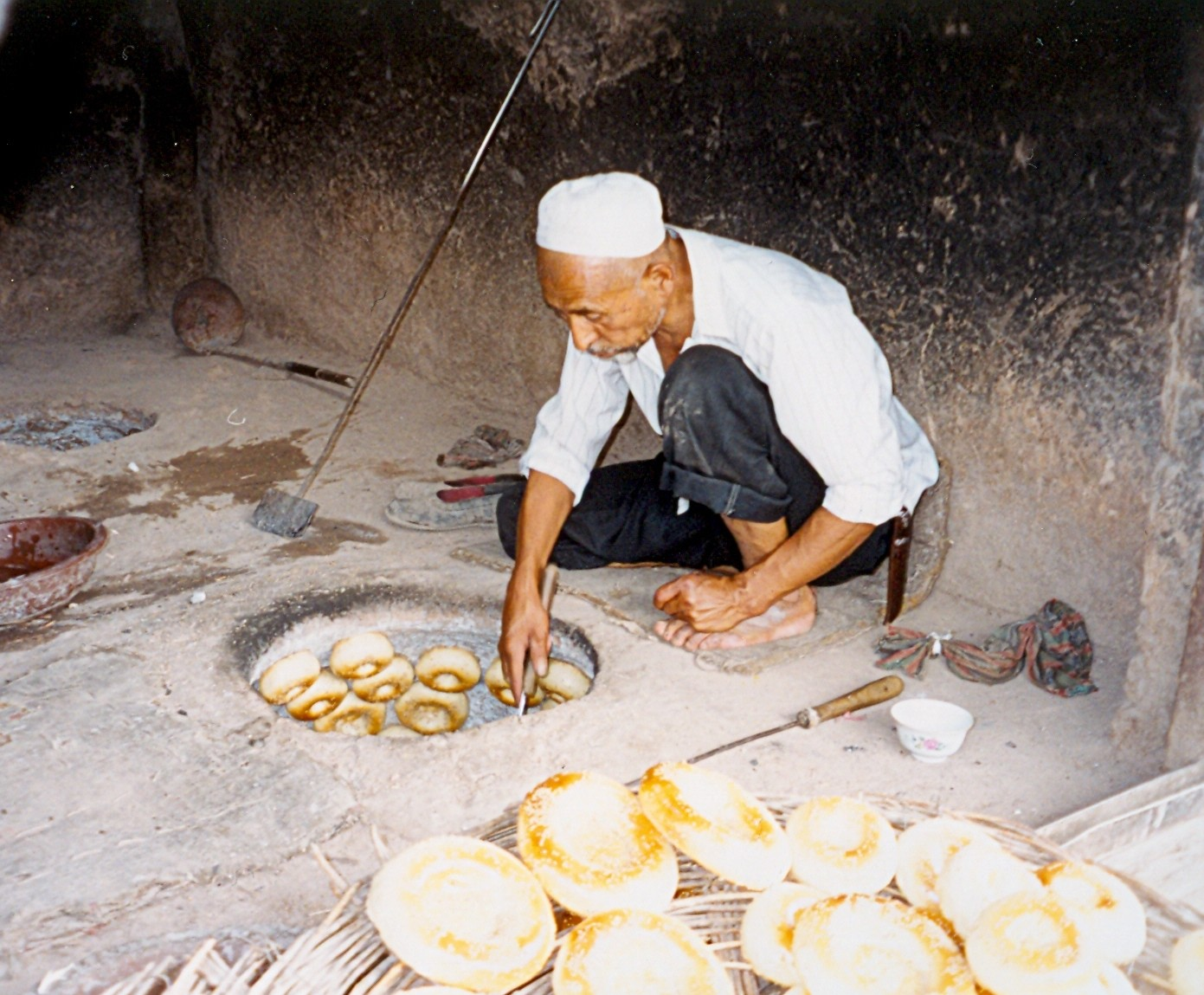 Naan preparation, Kashgar, China.